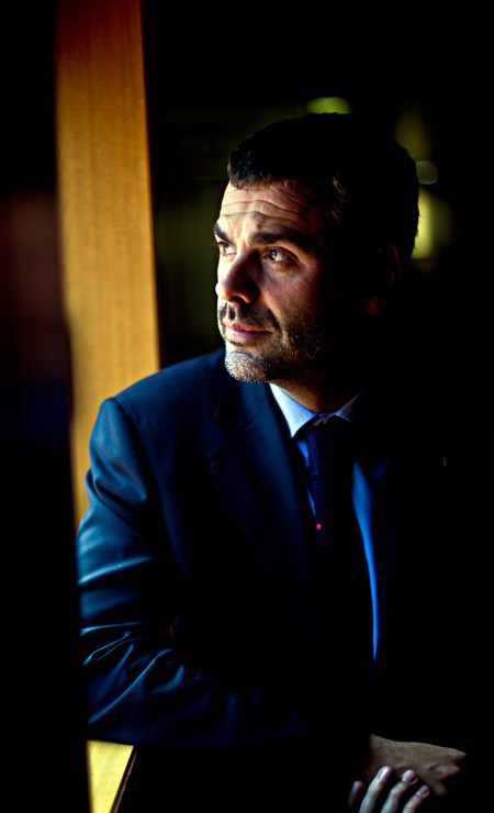 Picture of Santi Vila